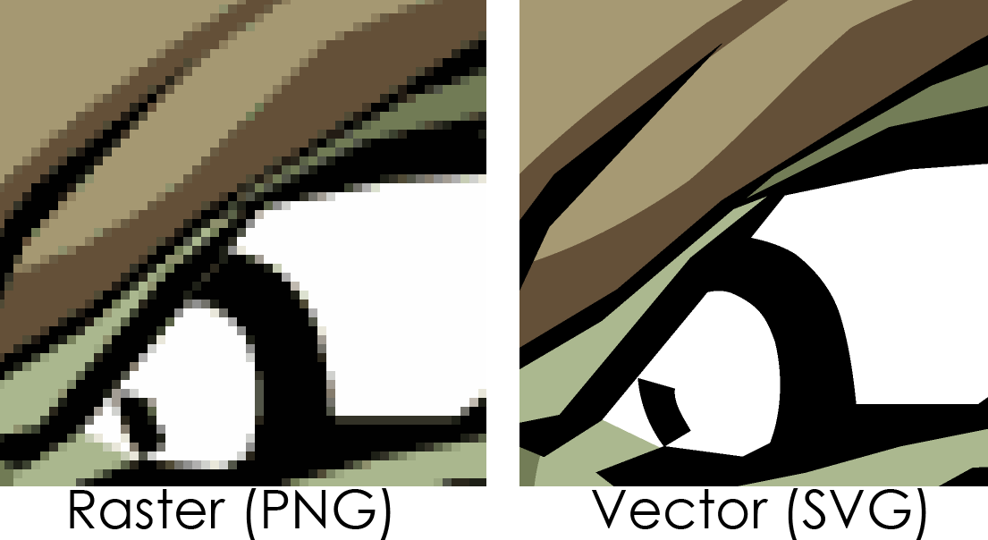 Orc - Raster vs Vector comparison, created by me from Wikipedia:Image:Ogre.png and Image:Orc.svg. Illustrates the difference between a vector image and a raster image. The vector SVG was rasterised at 720 dpi using Illustrator CS2. The raster PNG was interpolated with Photoshop CS2's bicubic sharper from 72 dpi to 720 dpi. Then both were cropped to show roughly the same portion, the text was added to show which was which and it was saved as a PNG. No other modifications were made. This is a quick and dirty demonstration so may not be perfect.